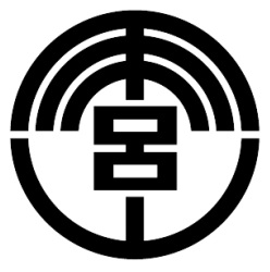 Moroyama Saitama chapter